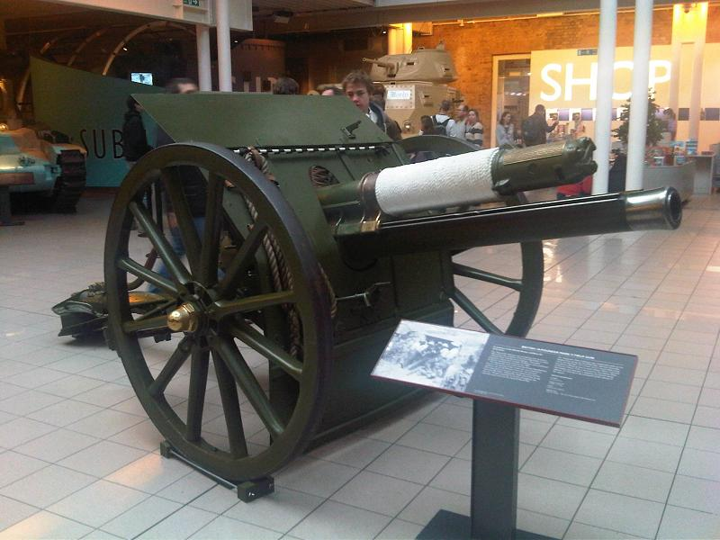 British 18-pounder mark II field gun at the Imperial War Museum, London. A stalwart of the British Army's artillery for forty years. The 18-pounder field gun was introduced into service in 1904 and, by the outbreak of the First World War in 1914, 1226 had been manufactured in Britain. Thereafter production soared and a further 9244 guns were produced by British and American factories by 1918. The 18-pounder saw action with the British Expeditionary Force in the opening weeks of the war and remained in constant use on the Western Front for the duration. The importance of the gun can be measured by the fact that over 86 million 18-pounder shells were fired during the war. The gun remained in service throughtout the inter-war years and into the Second World War. This 18-pounder Mark II field gun saw considerable action on the Western Front during the First World War. Between September 1916 and November 1917 it fired 16,513 rounds before being sent back to Britain to have its barrel relined. When it returned to France in March 1918 it was issued to 53rd Battery, Royal Field Artillery and took part in opposing the German spring offensive of 1918 and in the subsequent British advance in the autumn. Technical specifications: Calibre: 3,3 inch (8,4 cm) Weight in action: 2,820 lb (1,279 kg) Range: 6,525 yards (5,966 m) Ammunition: 18 lb 8oz (8,4 kg) - 10 lb 3oz (4,6 kg) shrapnel, high explosive, star